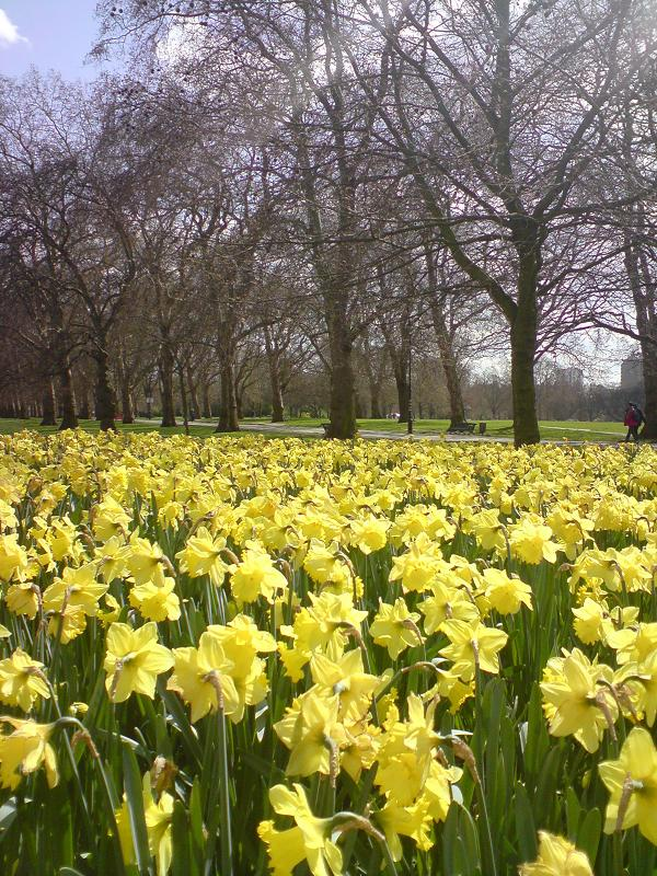 A field of Trumpet Daffodil Cultivars (Narcissus pseudonarcissus) in Hyde Park, London, England.